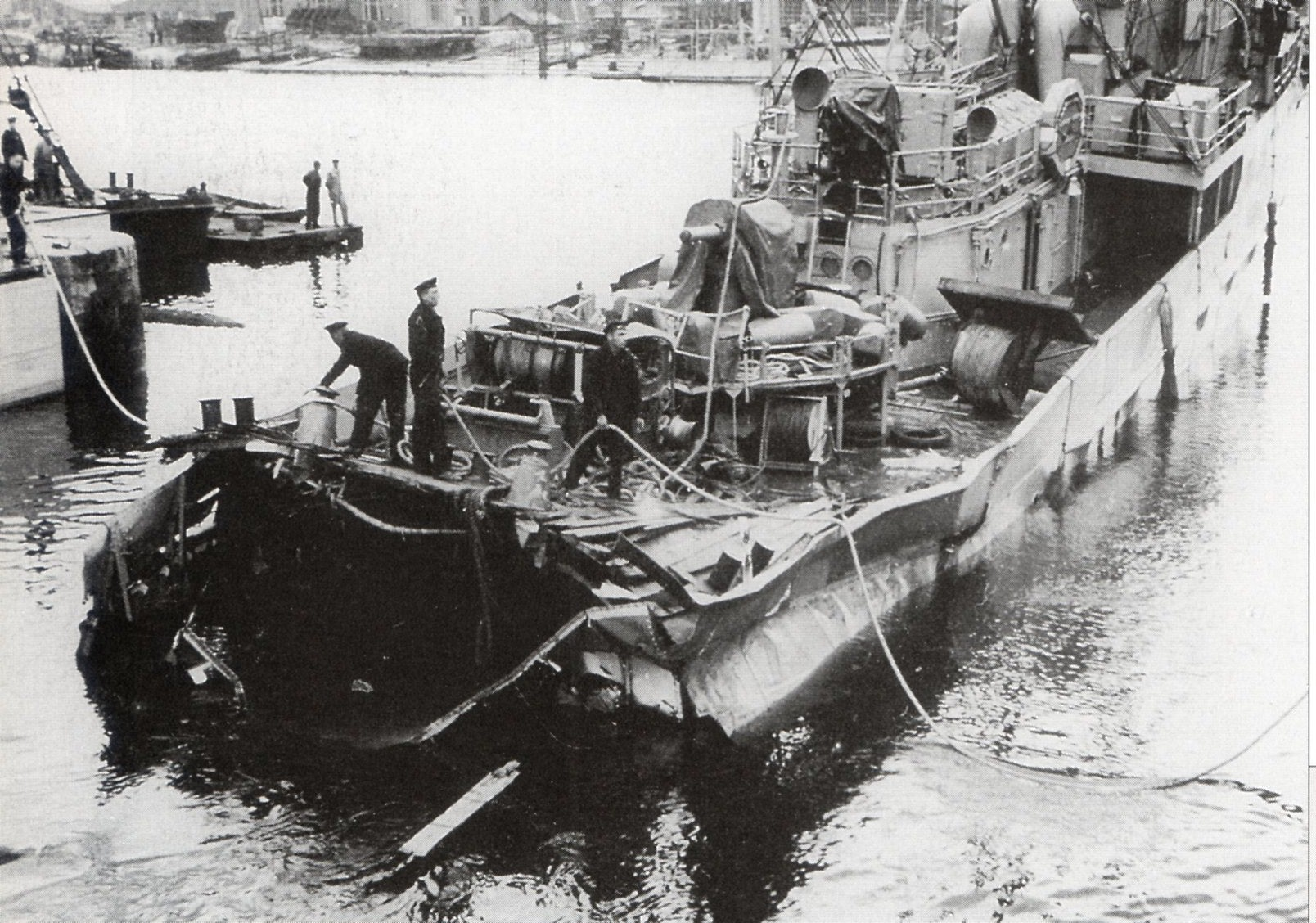 Dutch Jan van Amstel class minesweeper Abraham van der Hulst after beeing struck by a mine.